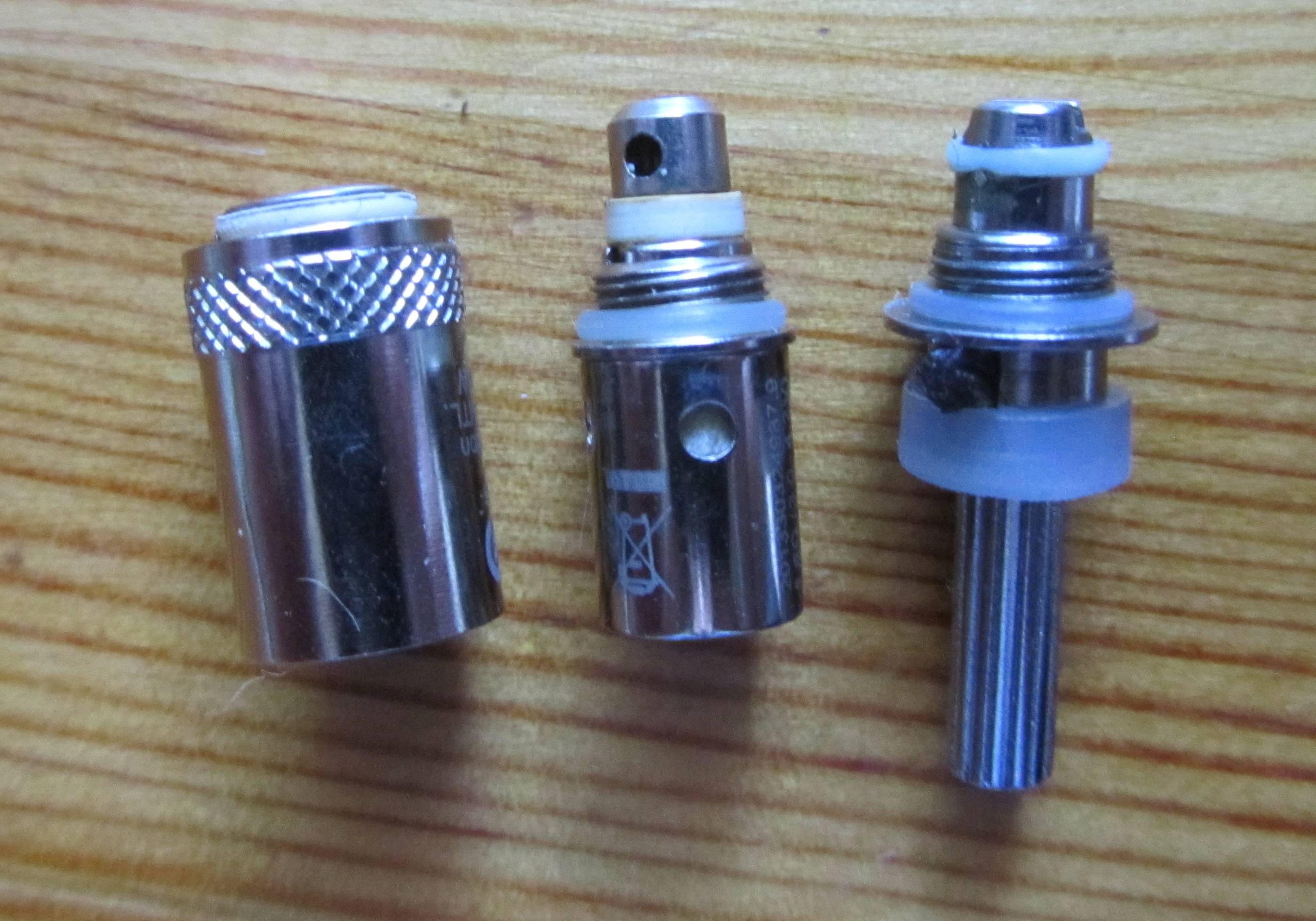 Three different coil units for electronic cigarettes